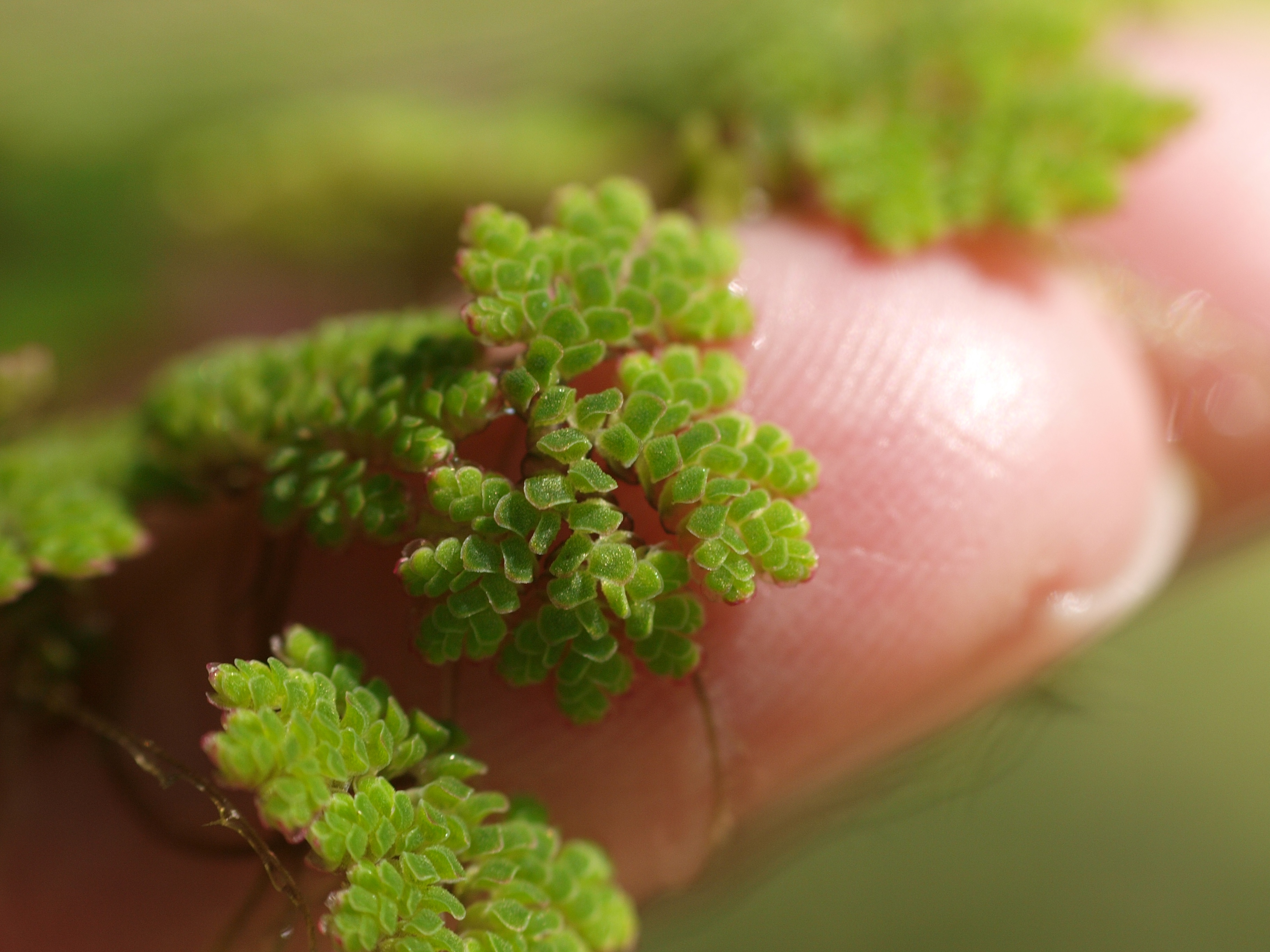 Closeup of this vegetation choking the lake at Jack London State Historic Park. Taken last spring. The lake is in the lengthy process of remediation by the Jack London Lake Alliance (Glen Ellen, Sonoma County, CA)